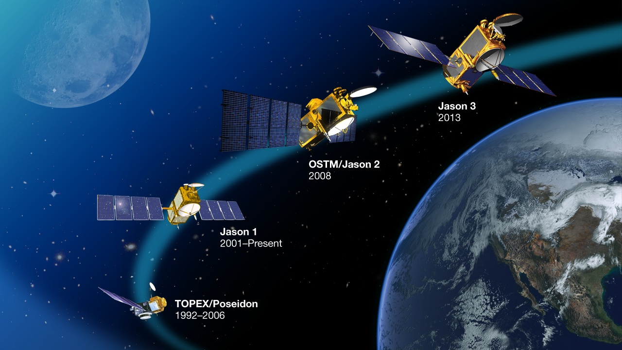 Artist's rendering of the TOPEX/Poseidon satellite and its follow-on Jason series of satellites.